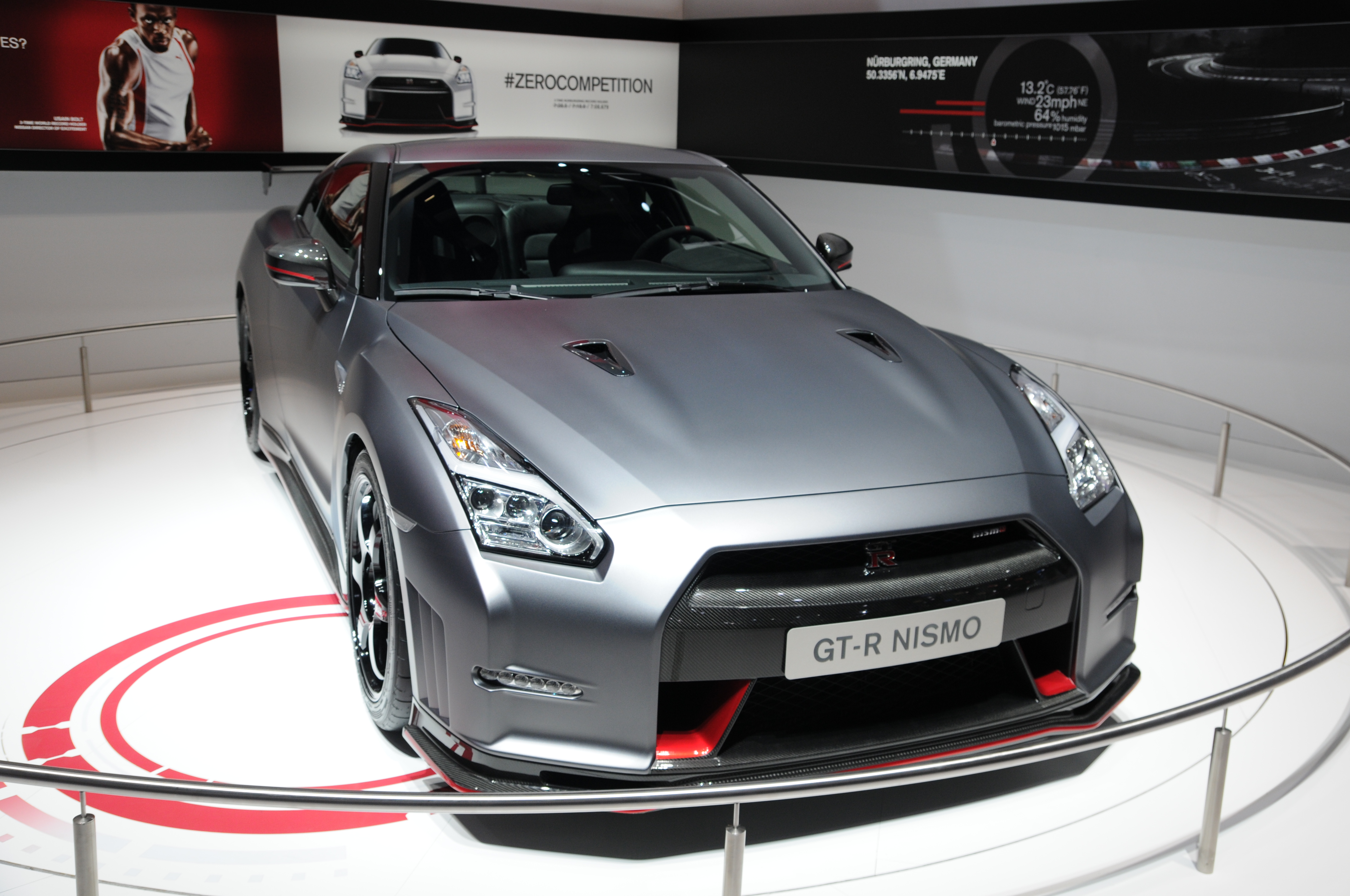 Geneva Motor Show 2014 (photo taken on the first press day)